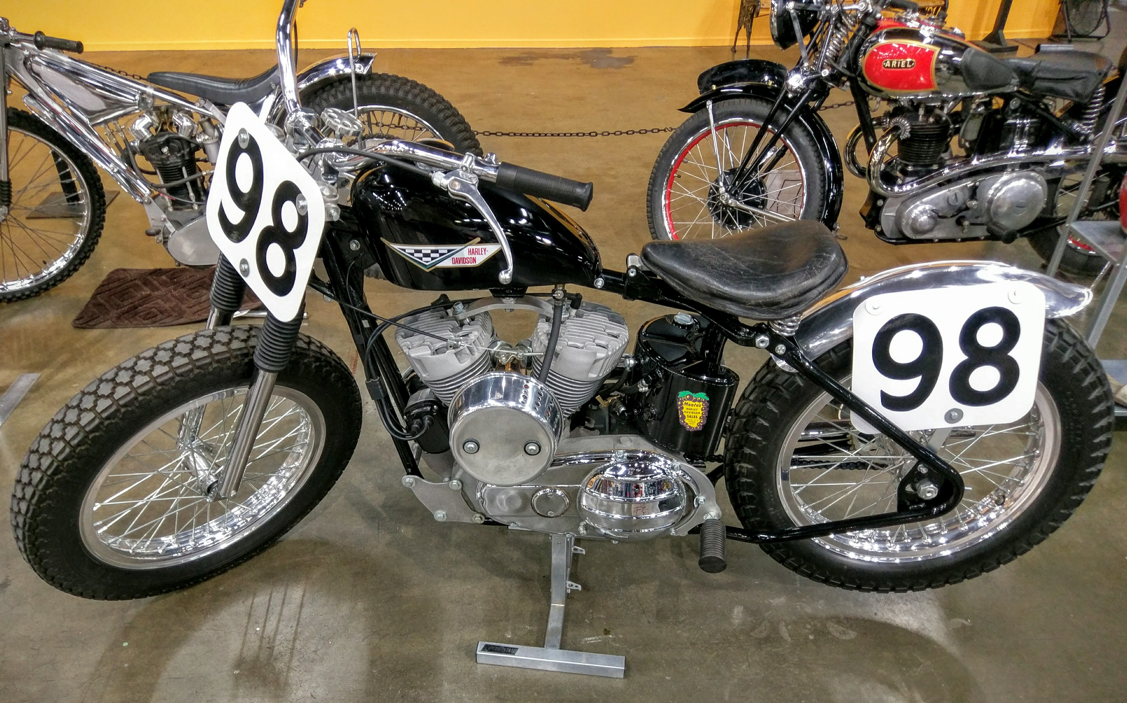 On display at the California Automobile Museum. Photo by Jim Heaphy.